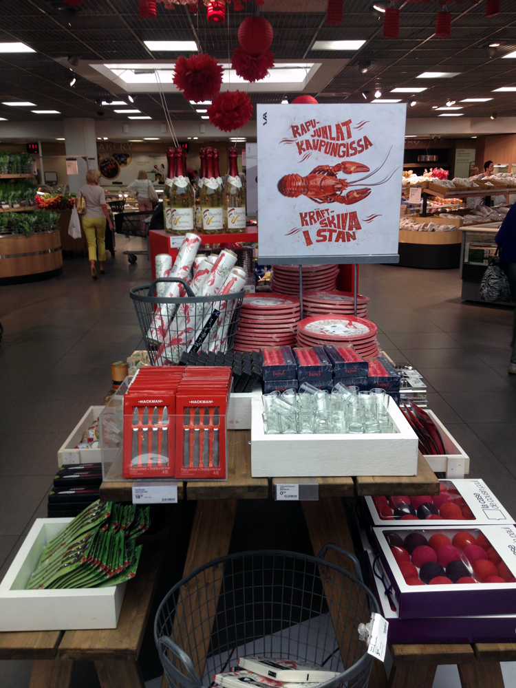 Special offers for Kräftskiva at Stockmann´s in Helsinki.